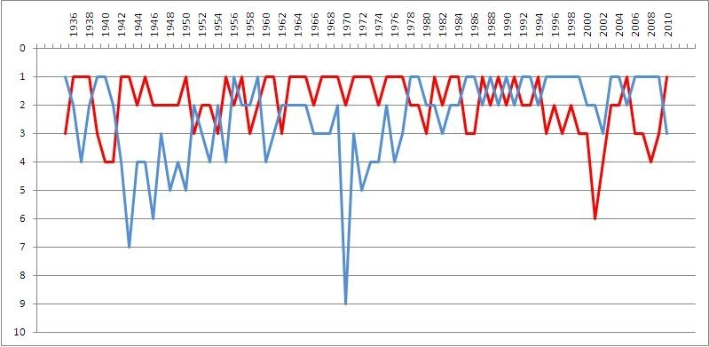 Graph charting the finishing positions of SL Benfica and FC Porto in the Primeira Liga since 1934. Benfica represented in red, Porto in blue.